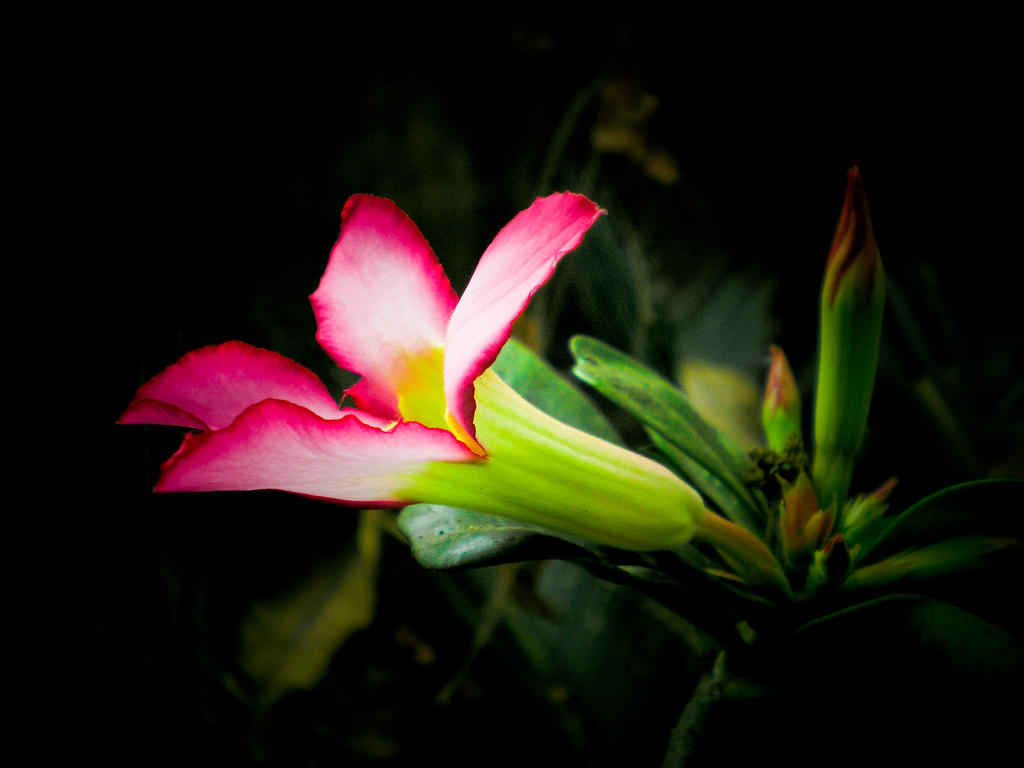 Adenium